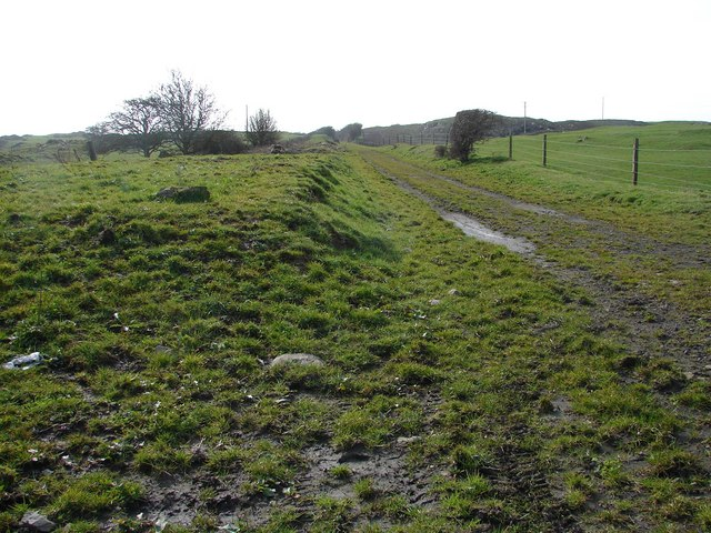 Broughton Skeog: Forgotten StationLine of former track bed of Wigtownshire Railway track (1877-1964) with traces of the short lived Broughton Skeog Station (1877-1885). A manual level crossing (behind camera) also existed but no trace left.